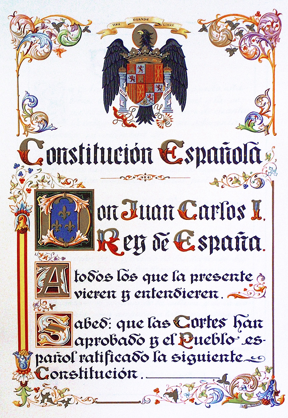 Spanish Constitution of 1978. The text translates to "Spanish Constitution – Lord Juan Carlos I, King of Spain, to all whom these presents shall be seen or understood, BE IT KNOWN: That the Cortes have approved and the People of Spain have ratified the following Constitution"